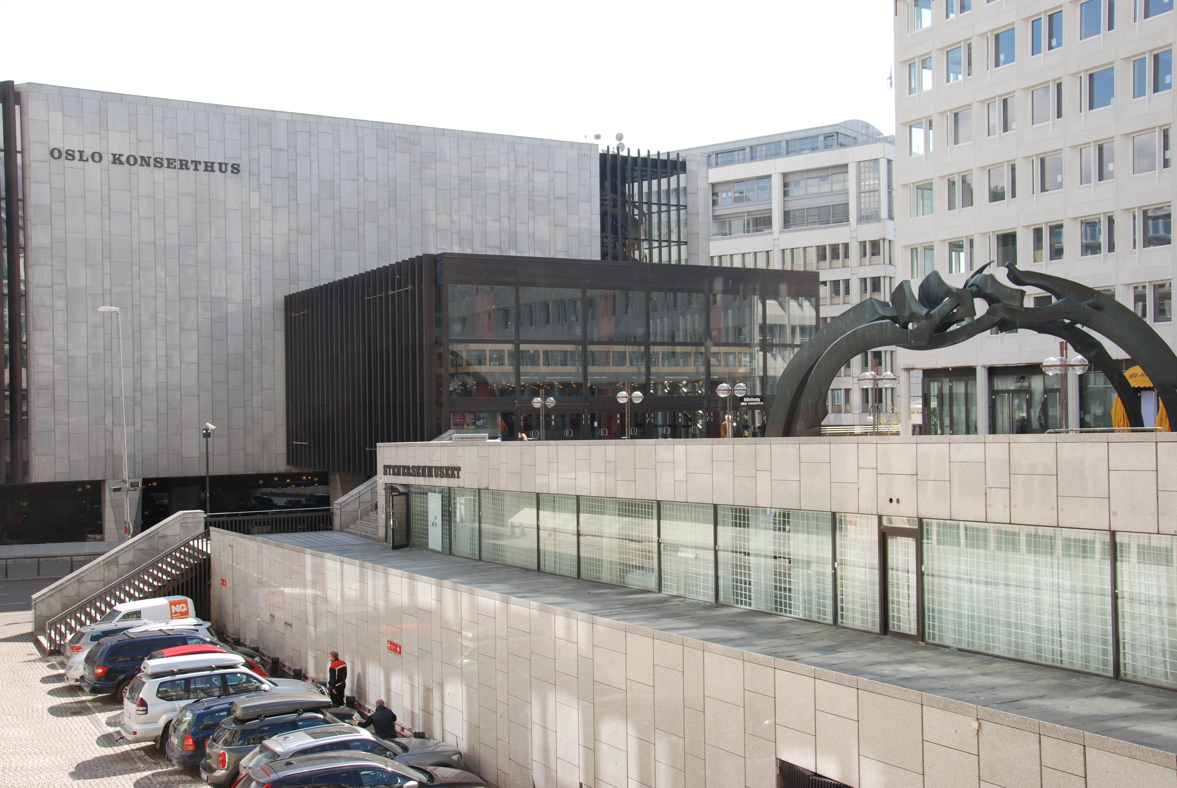 Oslo Konserthus